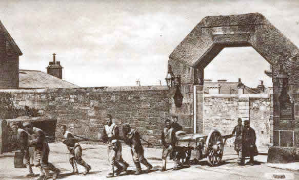 Photograph of prisoners at the Dartmoor Prison tied together carrying a cart out the gates.